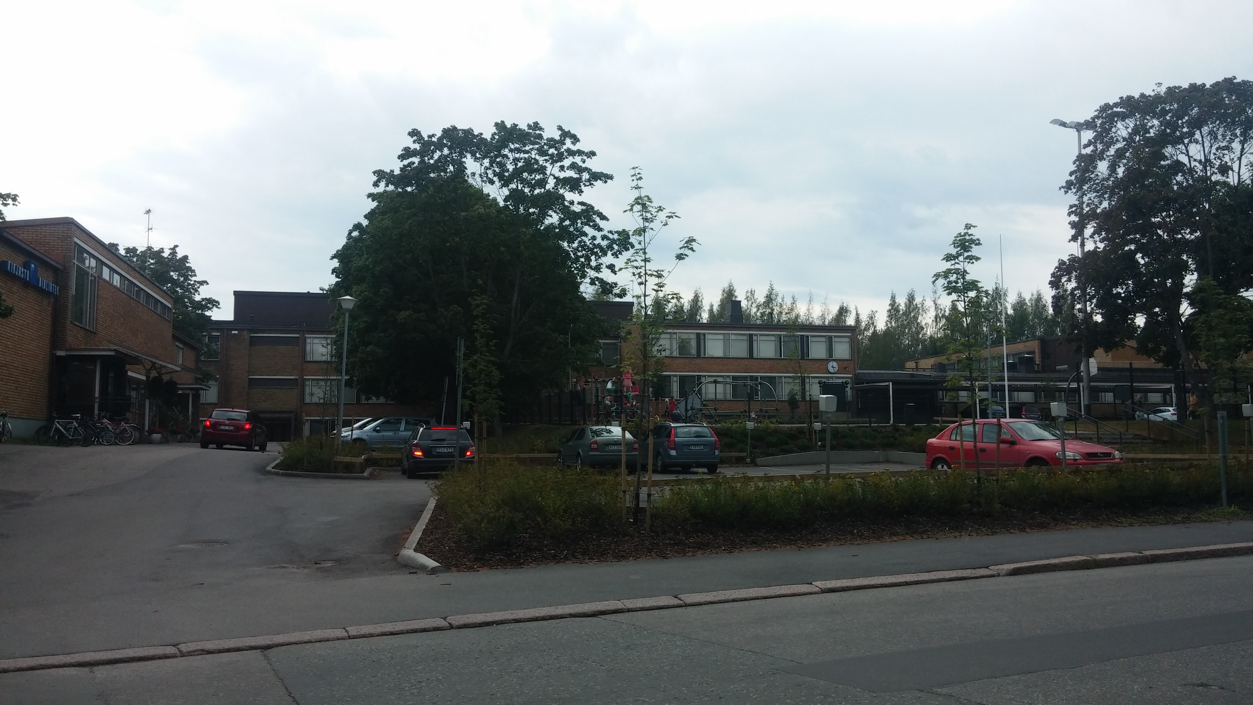 Haagan peruskoulu is a school in Helsinki, Finland.